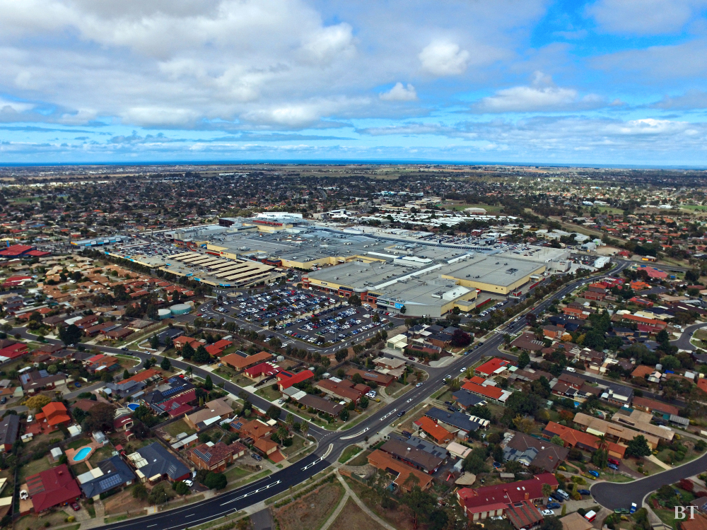 Aerial perspective of Pacific Werribee Shopping Centre. Taken April 2017.